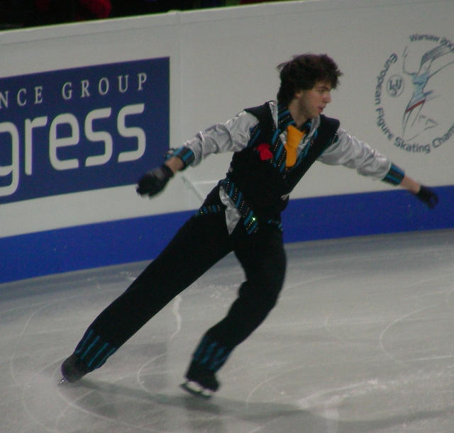 Alban Préaubert on the 2007 European Figure Skating Championships in Warsaw - free skate